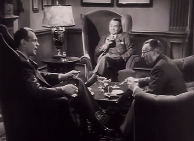 Left to right: Raymond Massey, Edward G. Robinson, and Edmund Breon in The Woman in the Window (1944) - trailer (cropped screenshot)